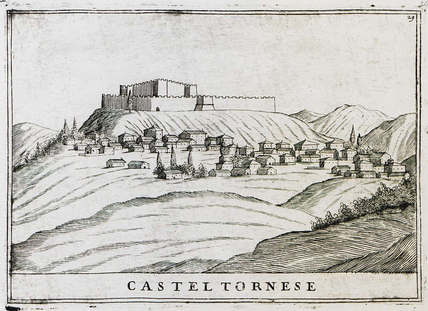 Vincenzo Coronelli. Memorie istoriografiche delli regni della Morea e Negroponte…, Venezia 1686